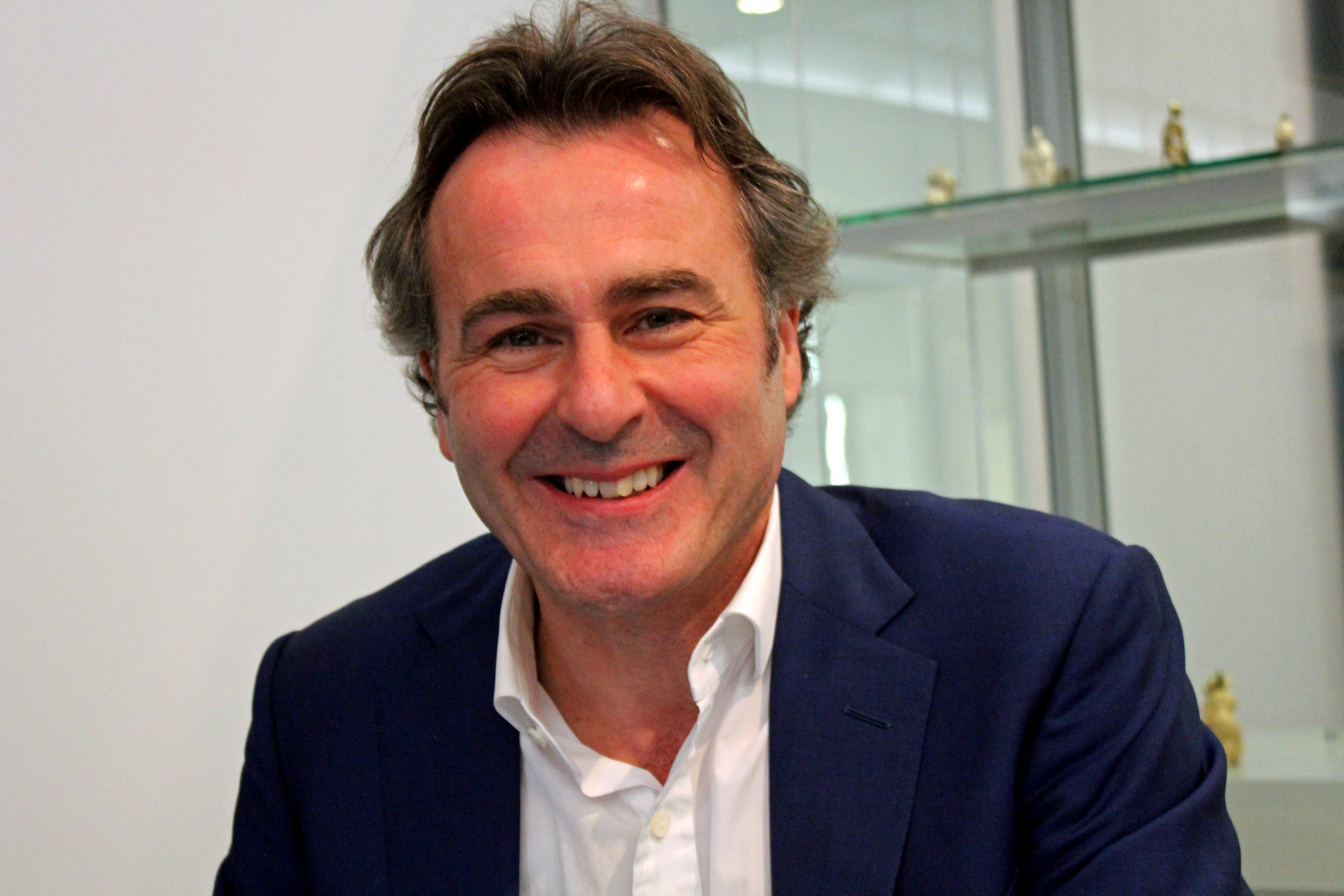 Paul Martin photographed during a recording of Flog It! at Birmingham Museum and Art Gallery, UK, 16th January 2014